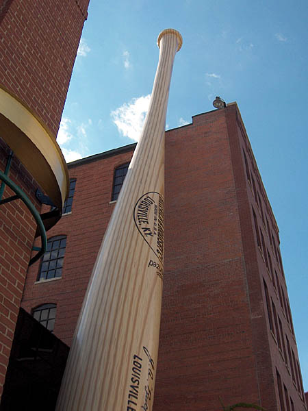 Visitors to Louisville Slugger Museum are greeted by the world's largest baseball bat outside, a full scale replica of the famous bat. Photo by Derek Cashman. 17:53, 23 July 2005 . . Derek.cashman . . 450×600 (62 KB)